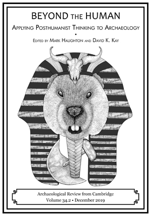 Cover for Archaeological Review from Cambridge, 34.2